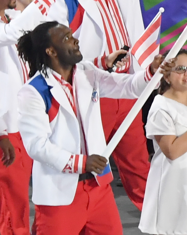 A scene from the Rio 2016 Olympic Games Opening Ceremony on Aug. 5 at Maracana Stadium in Rio de Janeiro, Brazil. U.S. Army photo by Tim Hipps, IMCOM Public Affairs